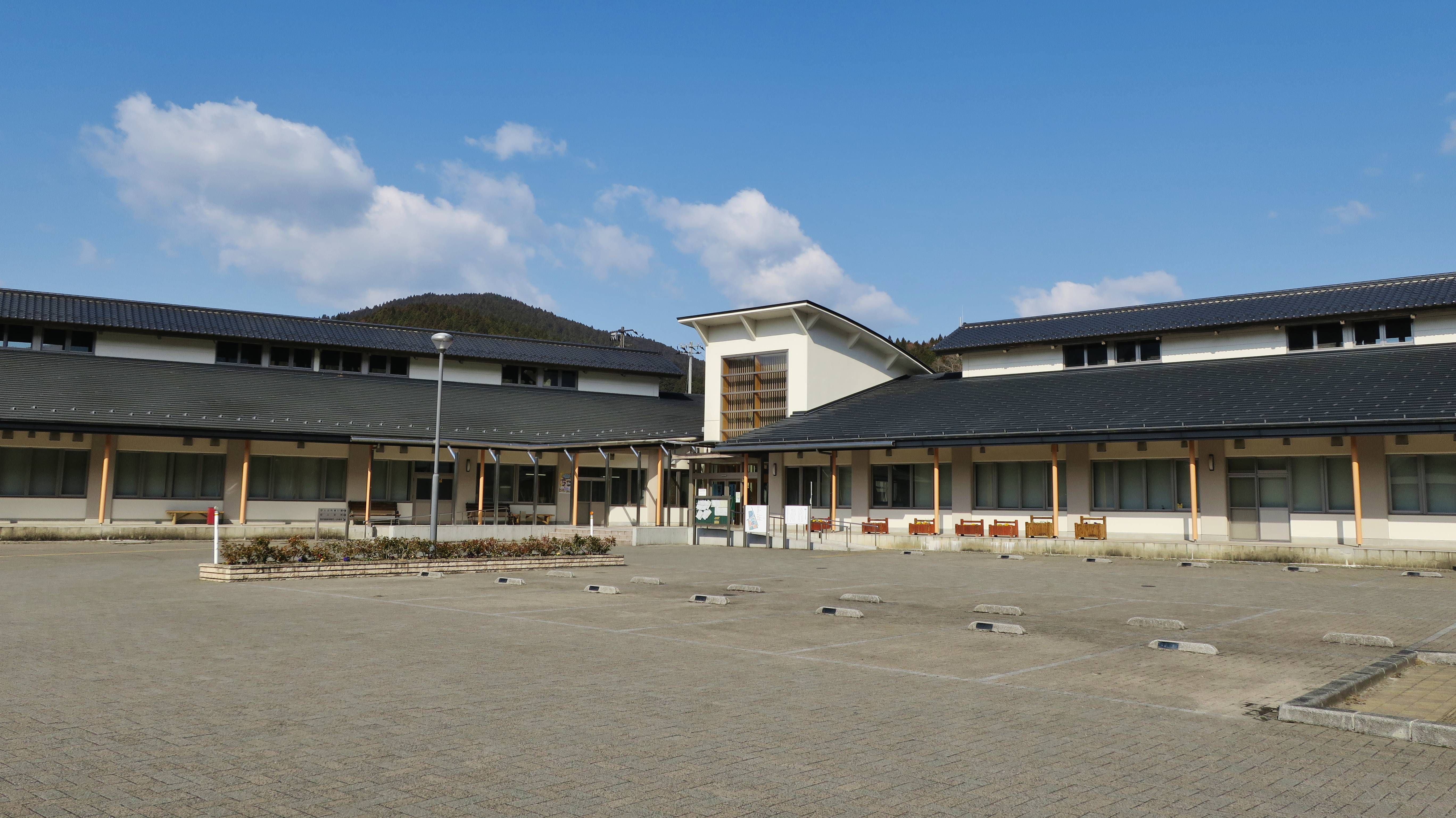 Tabito Meeting Center.